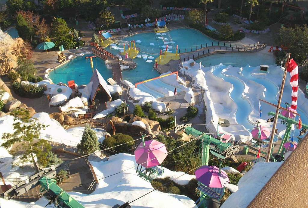 A picture of the Ski Patrol area of Disney's Blizzard Beach, taken from the stairs of Summit Plummet.